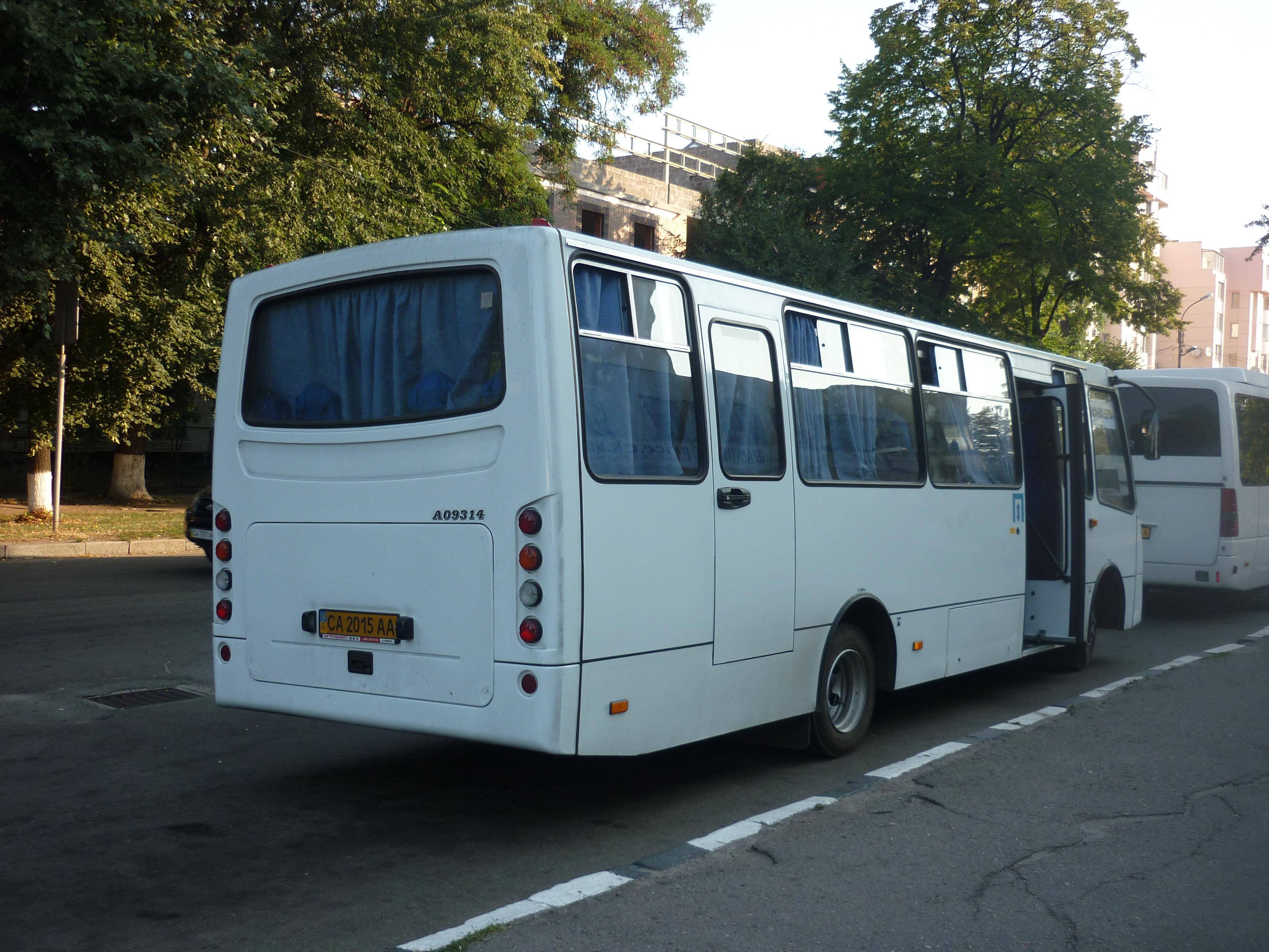 Bus Ataman A093414 in Cherkasy